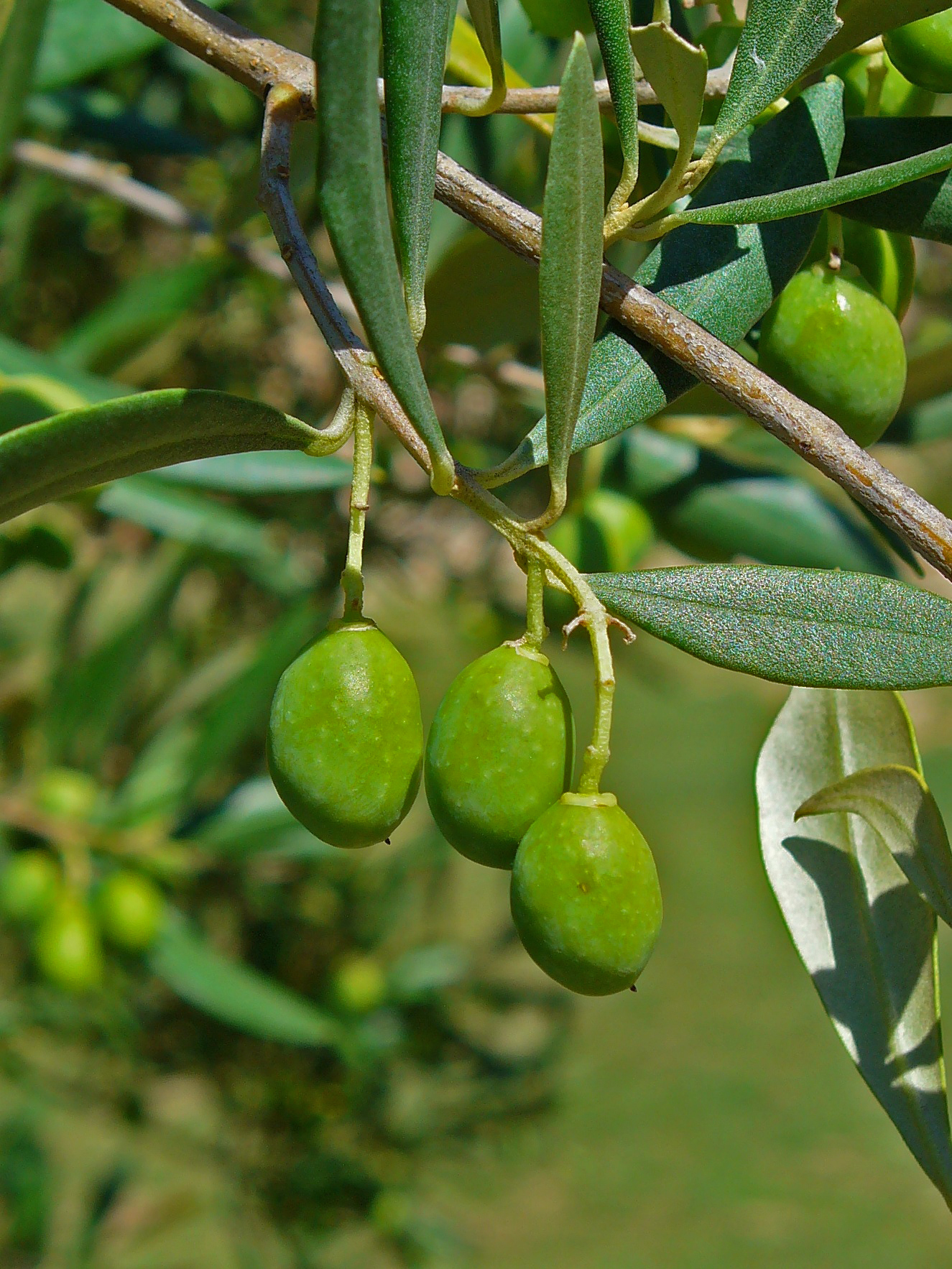 Olive, developping fruits; Ille sur Têt, France.